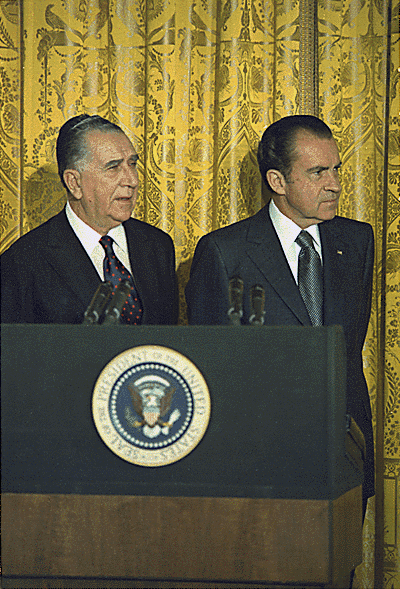 Richard Nixon and Emilio G. Medici, President of the Federative Republic of Brazil.